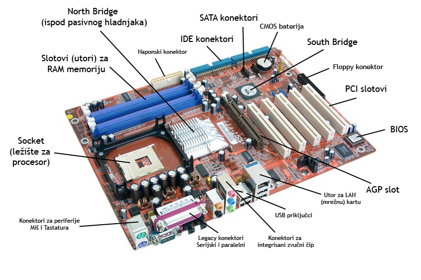 Description of ABIT motherboard VT7 in Bosnian.